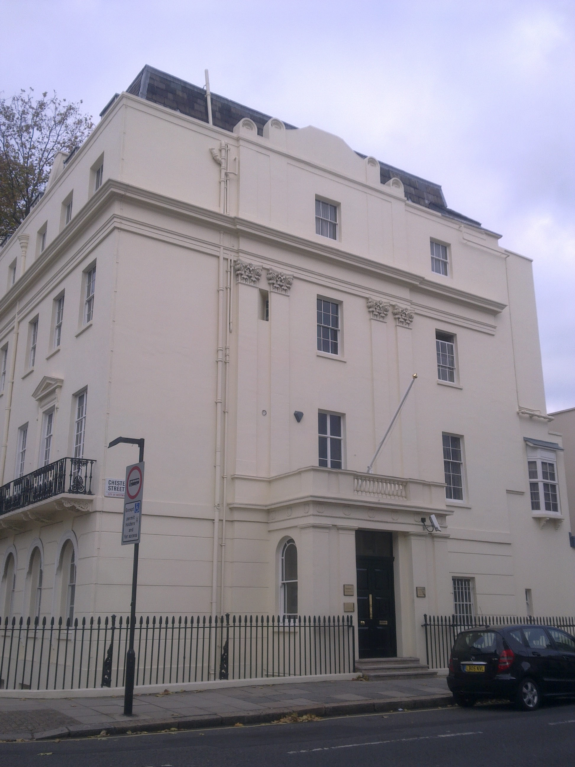 Embassy of Ivory Coast in London